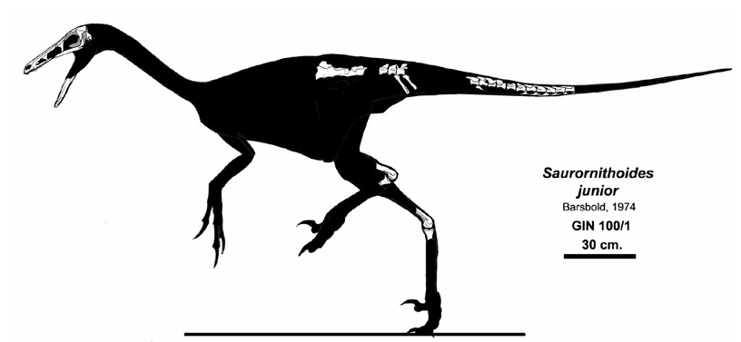 Skeletal reconstruction of Saurornithoides junior (now Zanabazar) showing the known elements on a black silhouette.